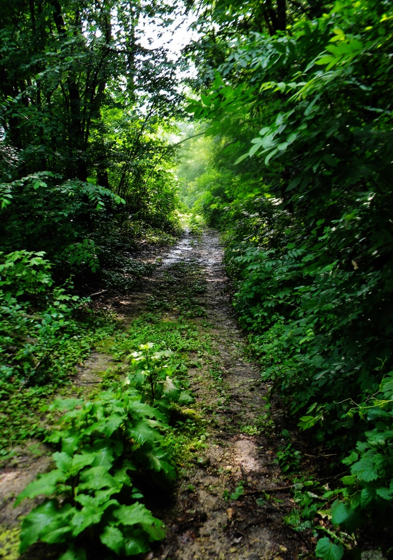 Lake City and Rochester Stage Road-Mount Pleasant Section